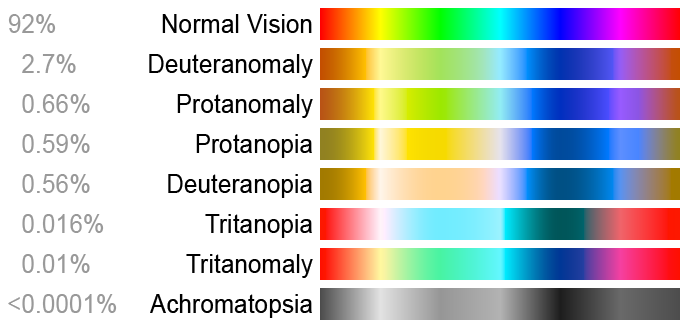 A comparison of the visible color spectrum in common types of color blindness.